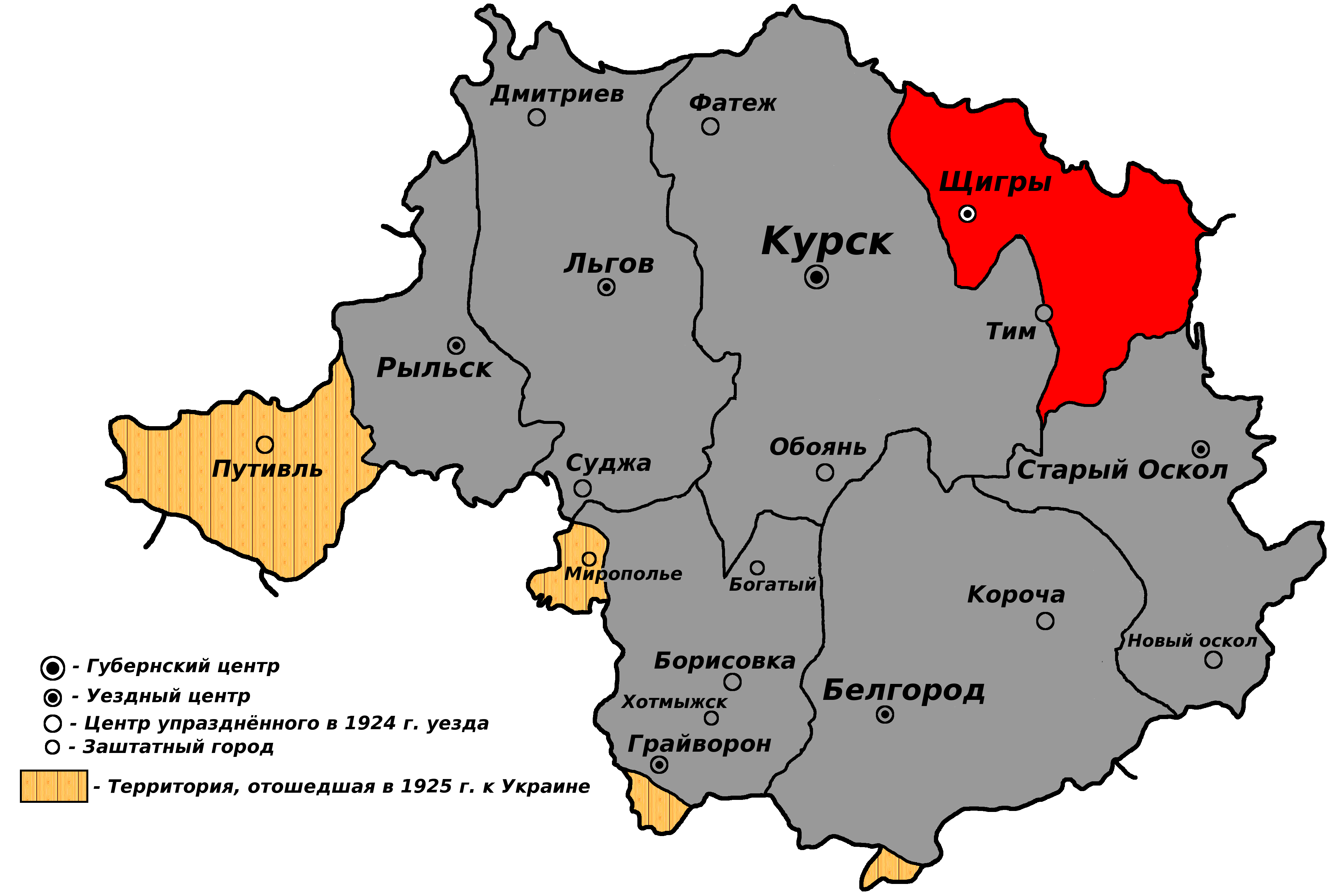 Kursk gubernia (RSFSR, 1924-1928), Shchigrovsky_uyezd